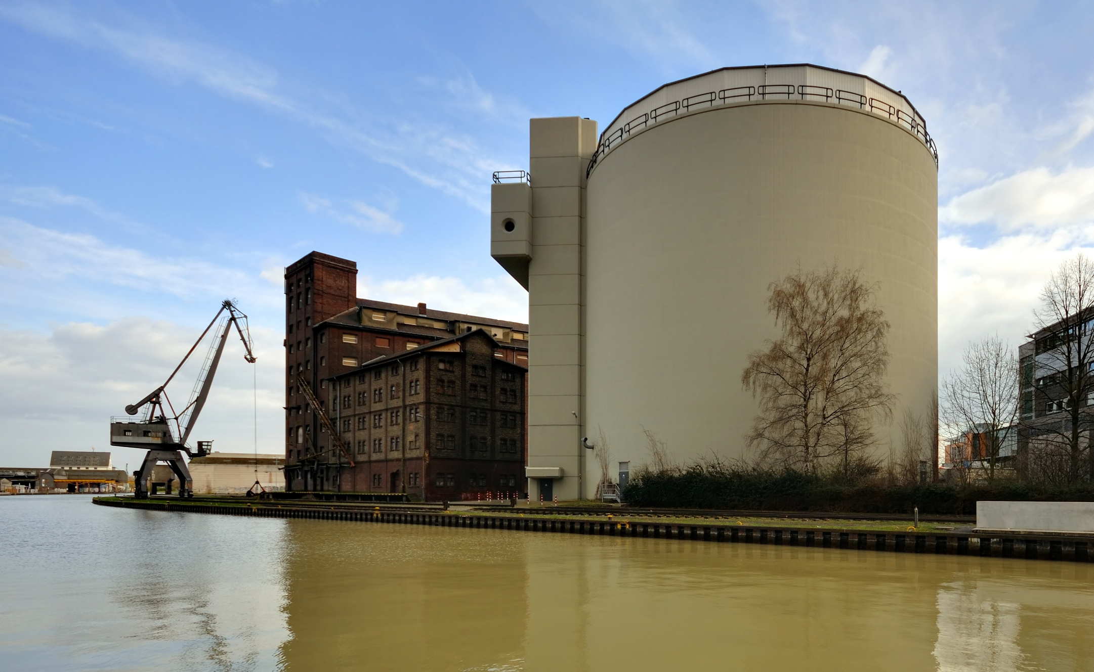 Münster: harbour, right side district heat storage of the public services